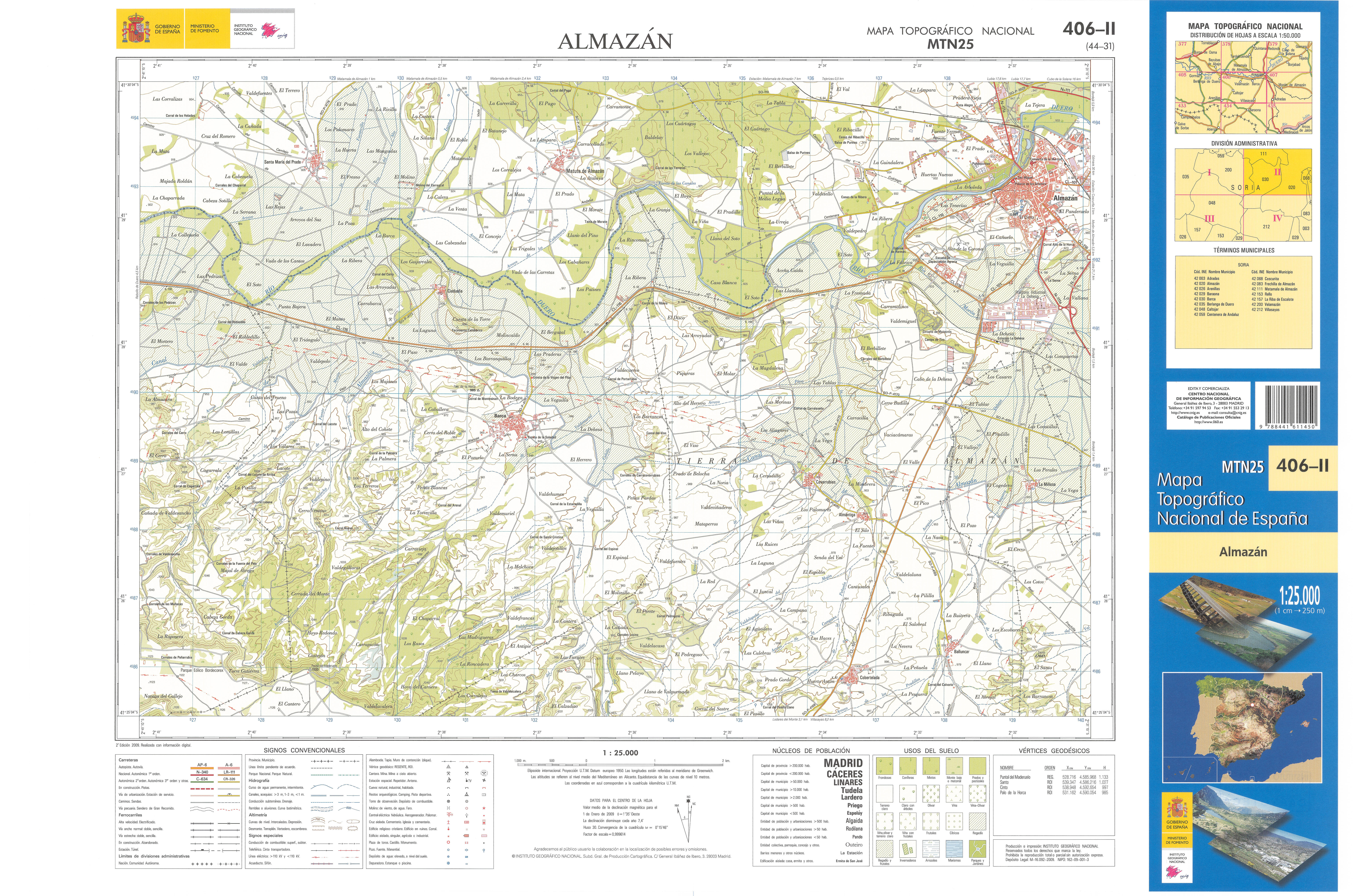 Fragment 0406c2 of the National Topographic Map of Spain in 2009 at a scale of 1:25000 printed and scanned with a resolution of 250 ppi. It shows Almazan.